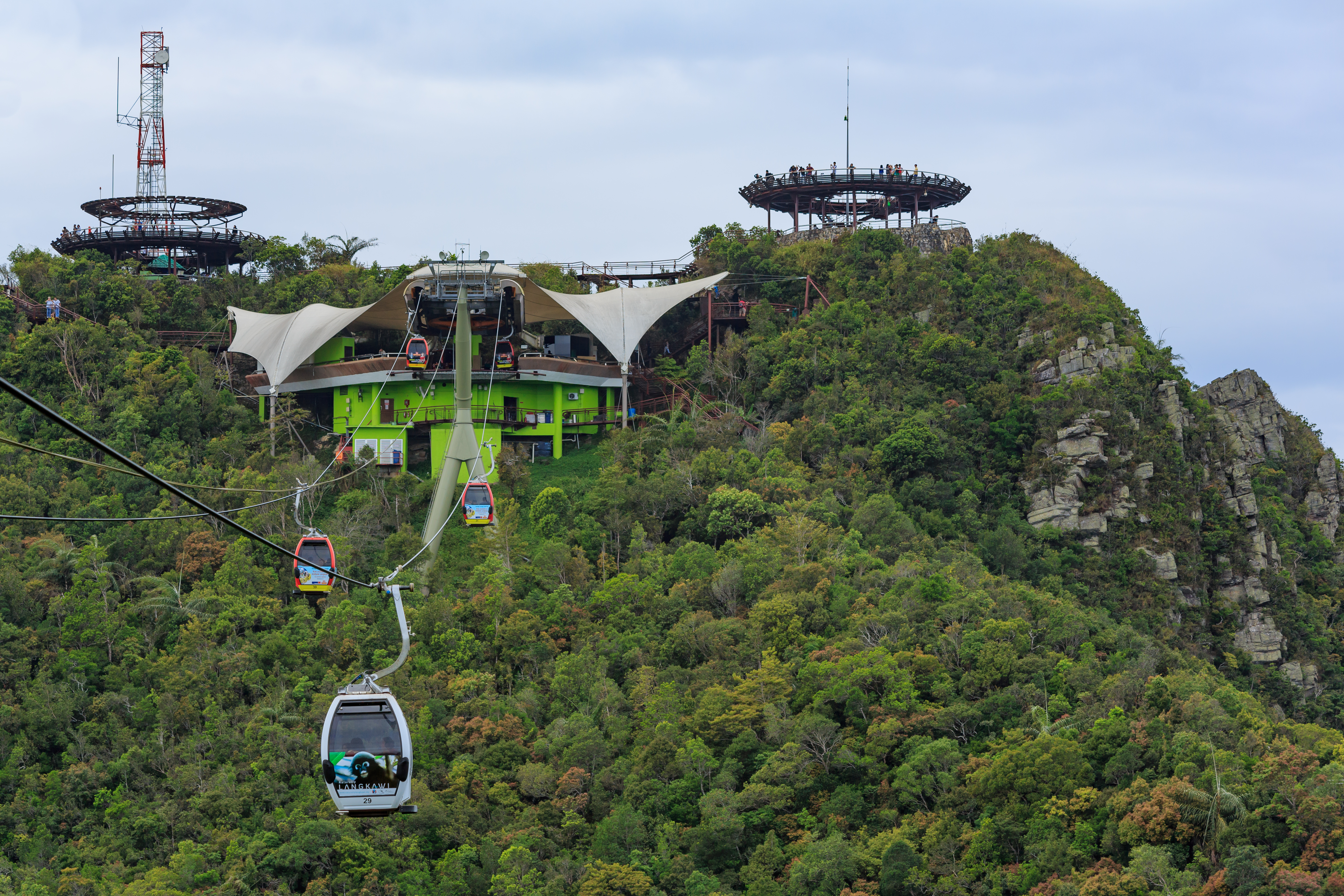 Langkawi, Malaysia: Langkawi Cable Car, Top Station on Gunung Machinchang